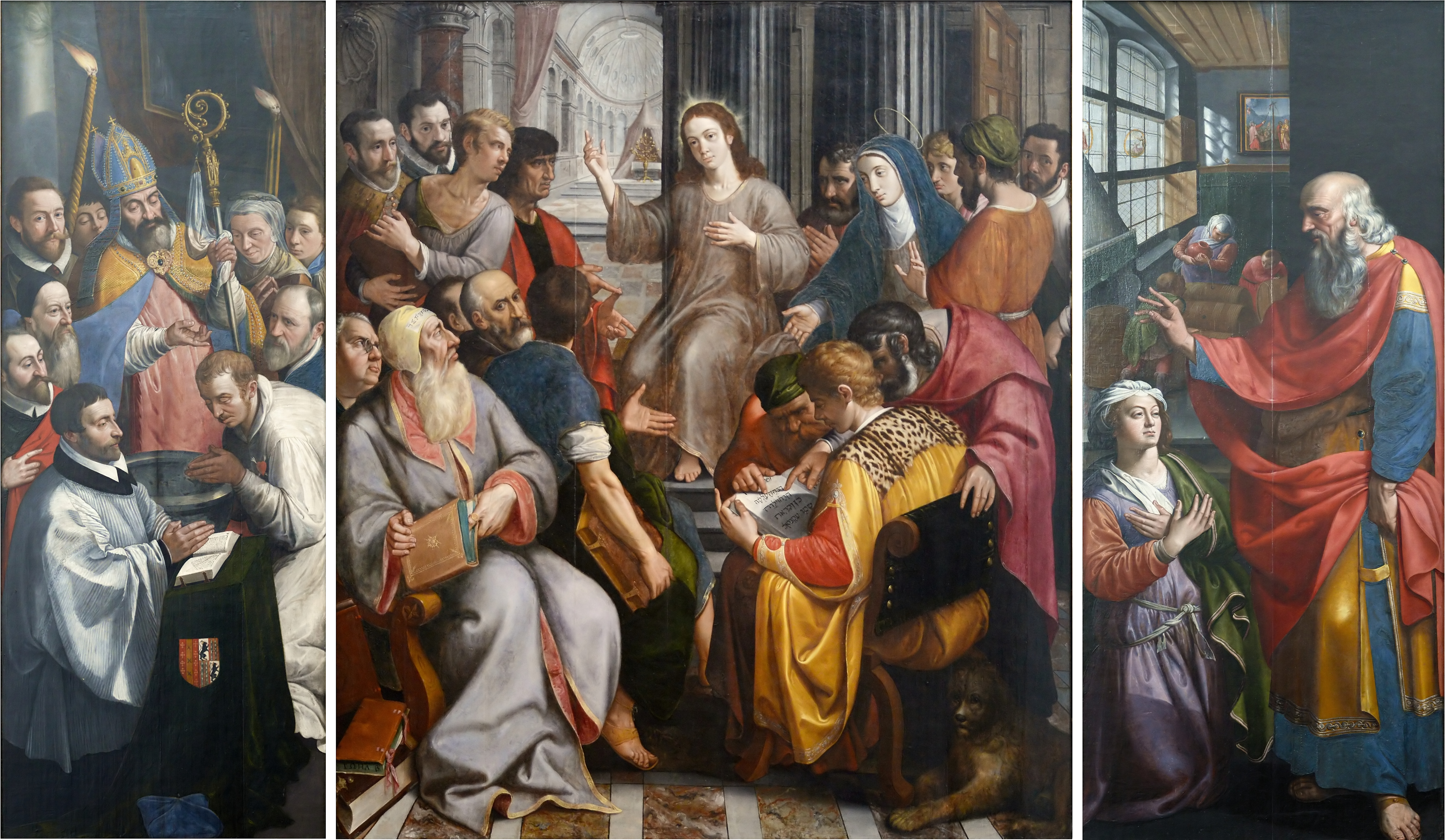 Triptic Christ among the scribes, by Frans Francken. Cathedral of Our Lady, Antwerp